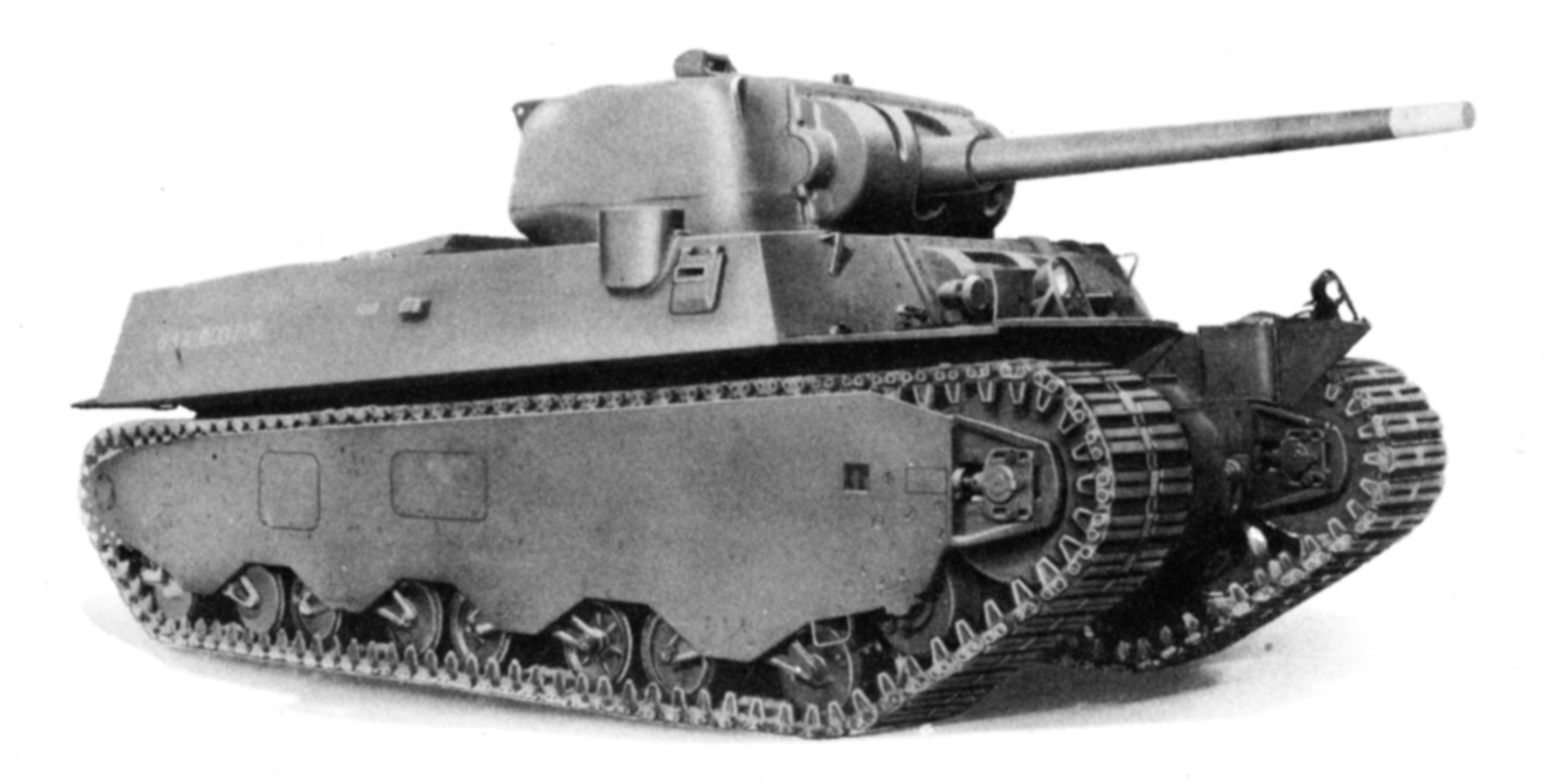 Image of a US M6A1 heavy tank (World War II era) scanned from TM 9-2800